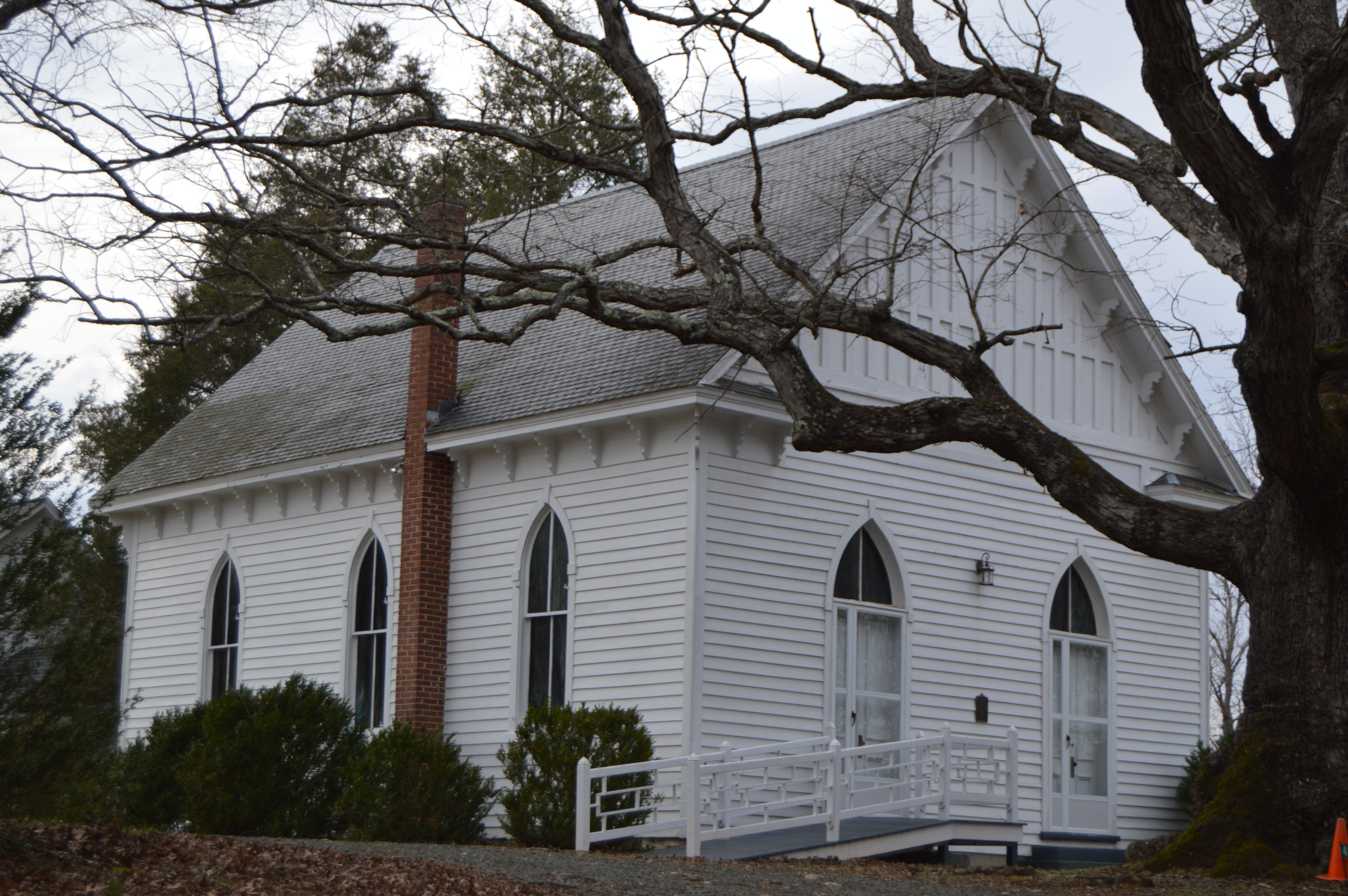 Front and southern side of Seay's Chapel Methodist Church, located at 4916 Shores Road northwest of Bremo Bluff in Fluvanna County, Virginia, United States. Built in 1893, it is listed on the National Register of Historic Places.